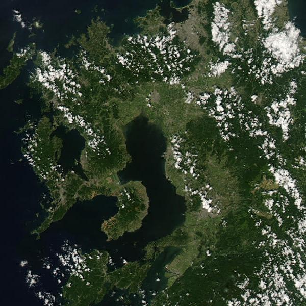 Aqua's satellite image of Northwestern Kyushu, Japan.